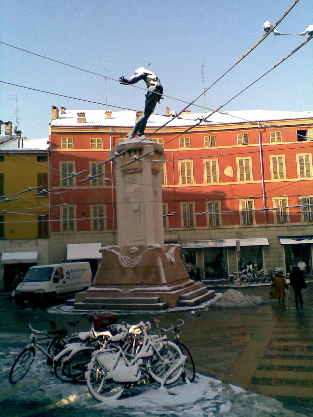 Monument to Filippo Corridoni which lies in Parma in the Oltretorrente quarter